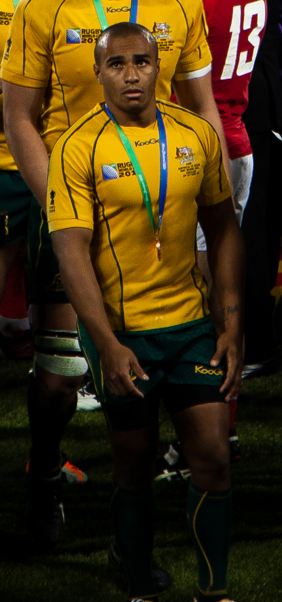 Team Australia after Bronze Final against Wales during 2011 Rugby World Cup in New Zealand.